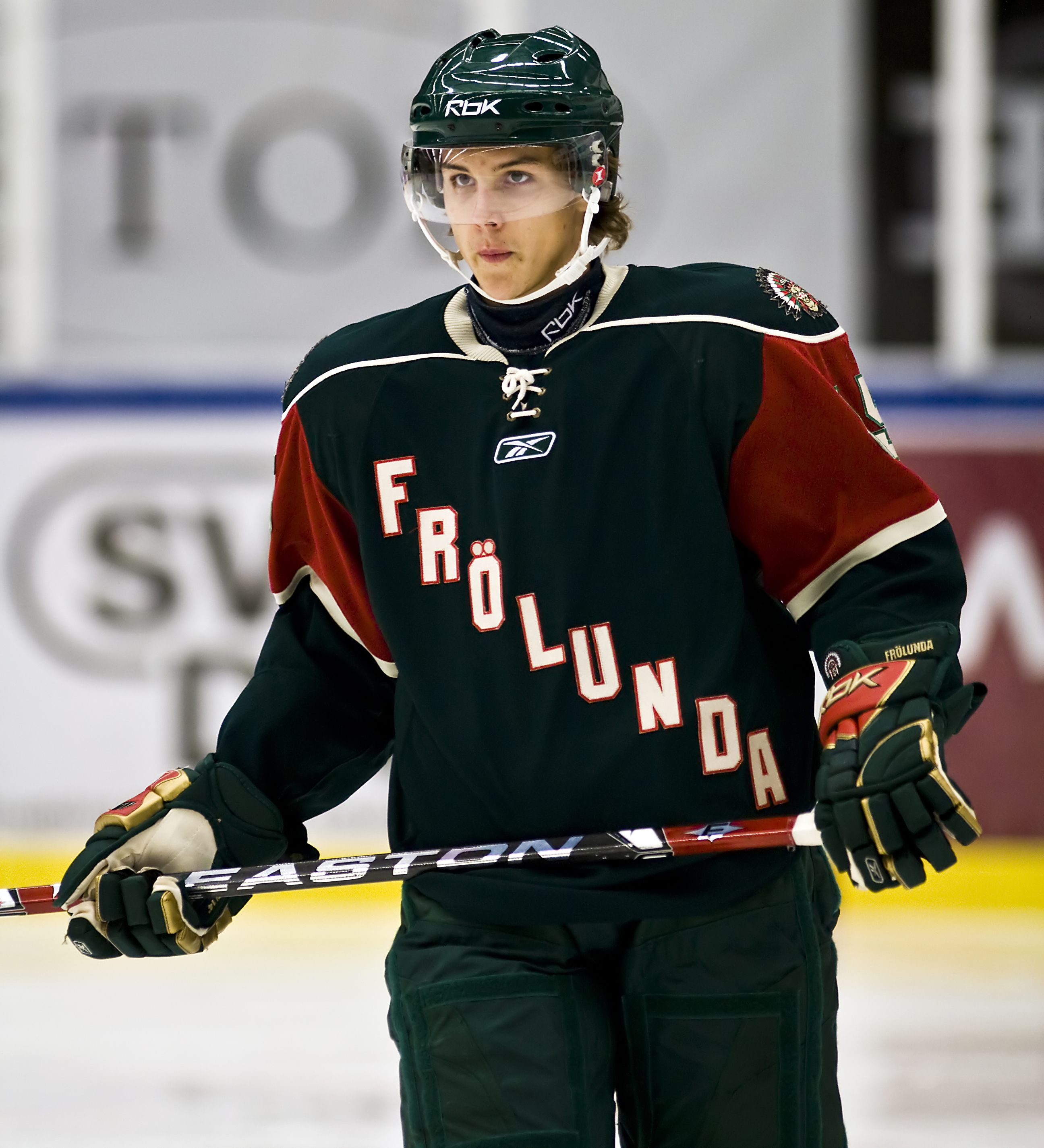 Erik Karlsson of Frölunda HC during a pre-season game against Jokerit in Borås Ishall, Borås, on August 21, 2008.